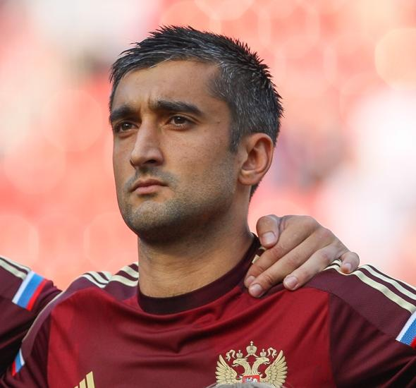 Aleksandr Samedov with the Russian national football team before a friendly game against Morocco in Moscow.